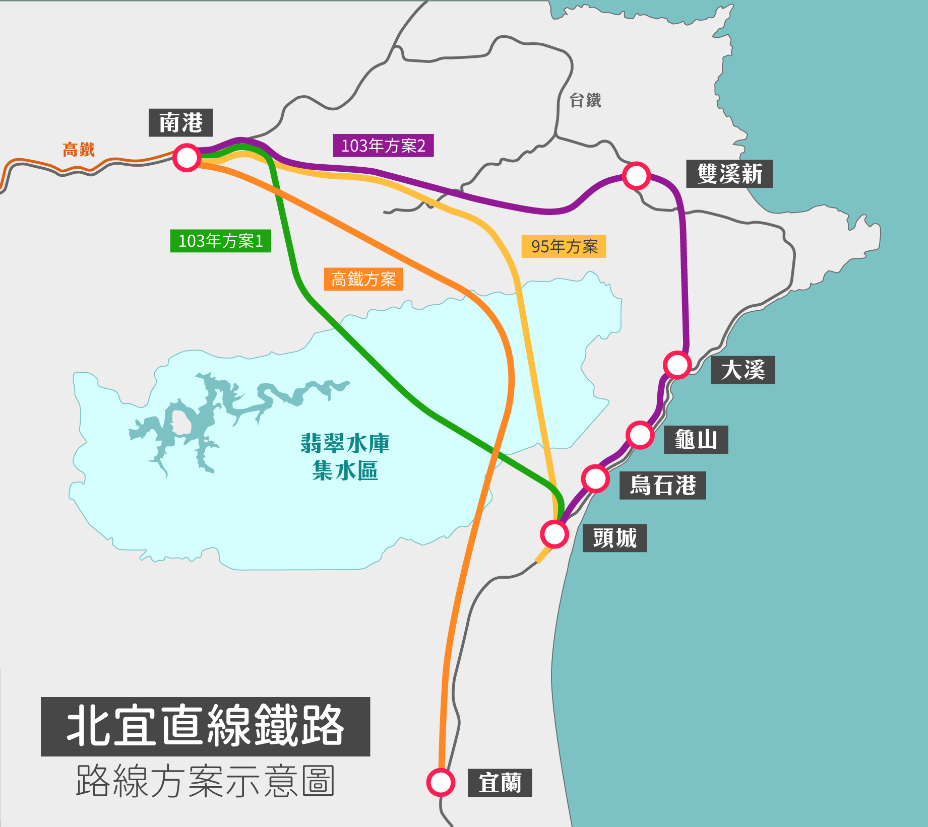 The Map of Taipei-Yilan New Railway Plan